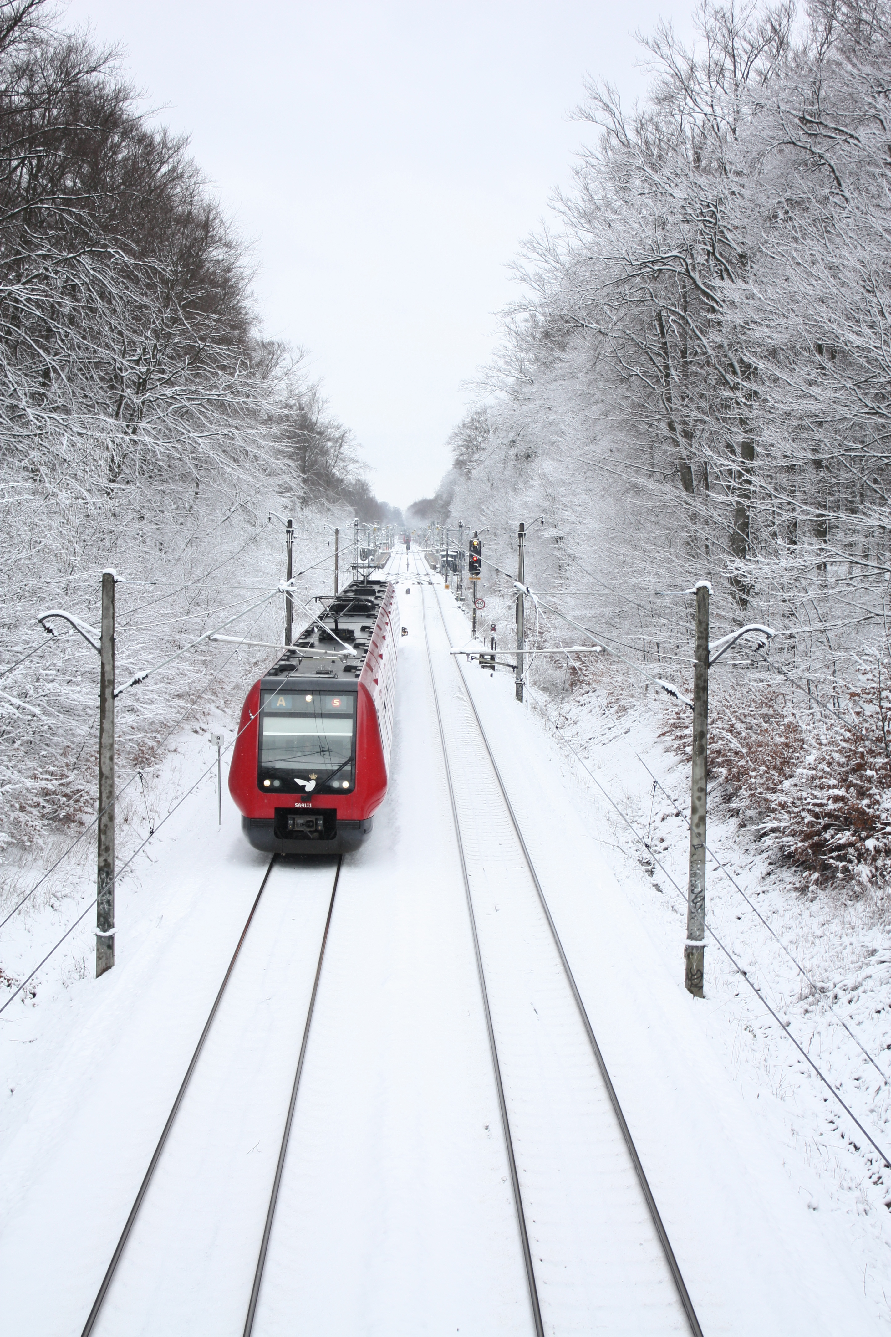 A Danish S-train drives through the snowy Hareskoven forest in February 2009. Hareskov Station can be seen in the background.